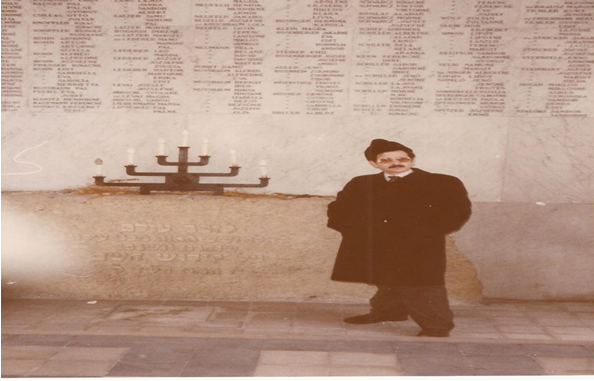 Rabbi Ahron Daum visiting in Sopron (upper Hungary), the memorial site for the Jews of Sopron who were murdered during the Shoah by the Nazi fascists and the Hungarian collaborators, including all the members of family Koth of his mother’s side.